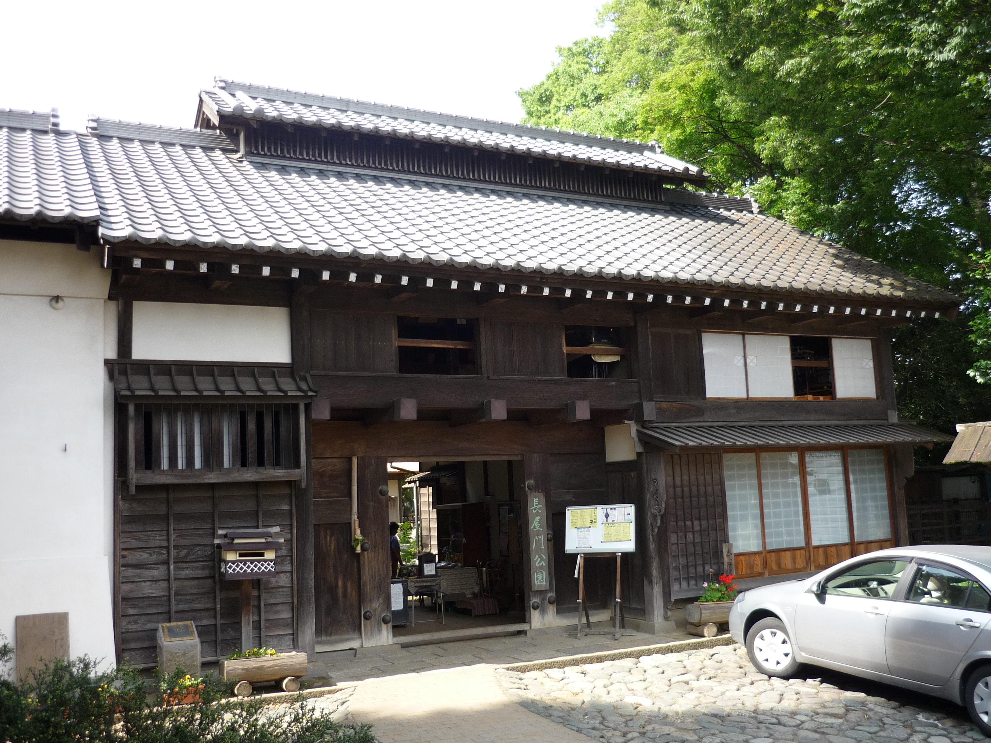 Nagayamon-kouen Nagayamon, Yokohama